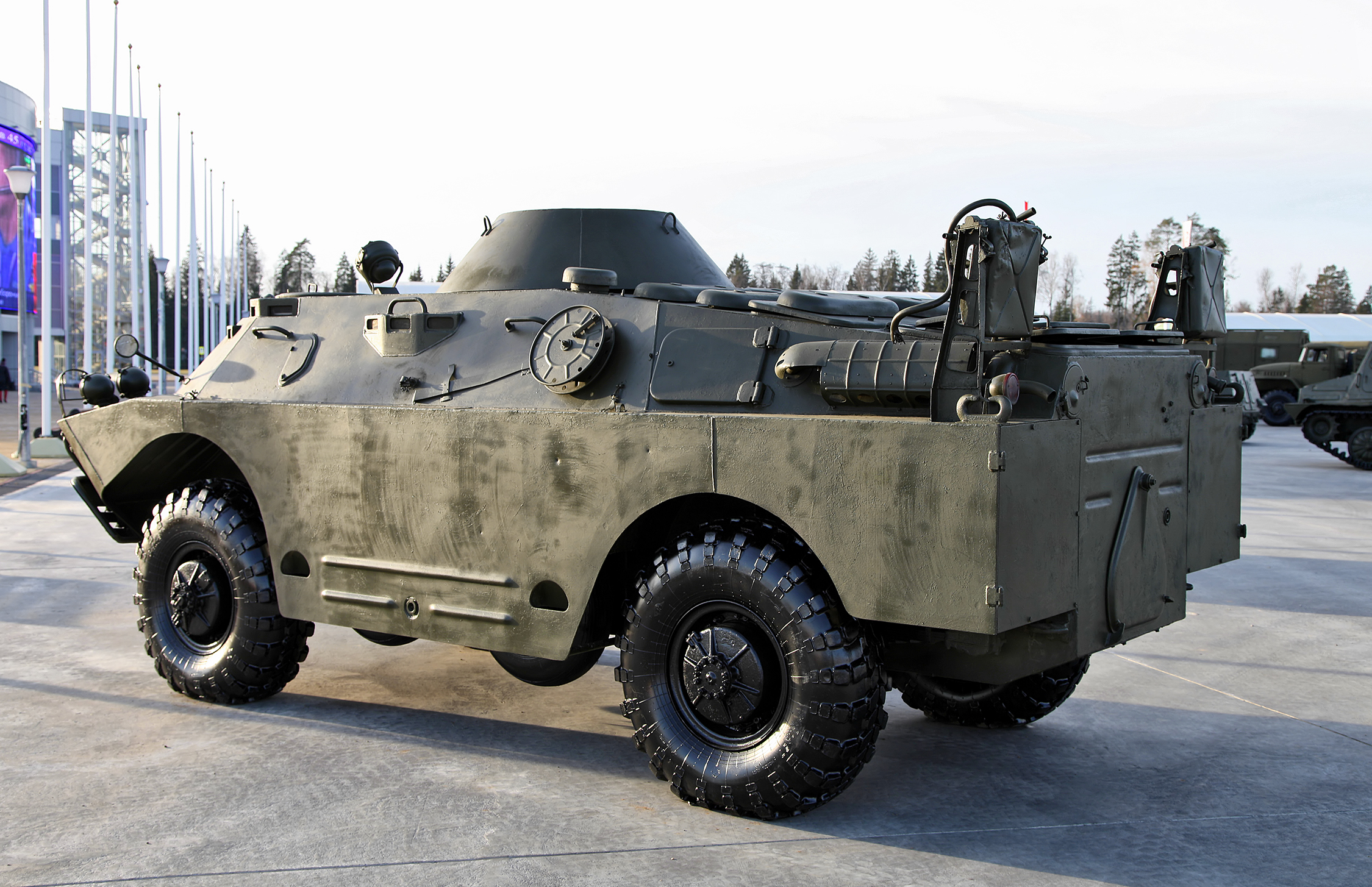 BRDM-2RKh NBC reconnaissance vehicle